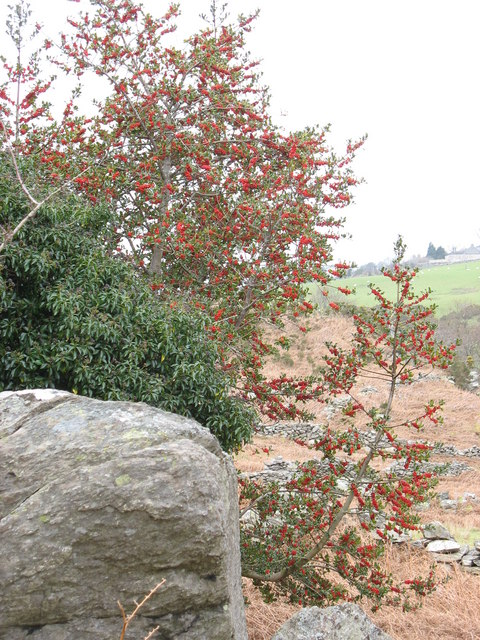 Holly and the ivy in mid-February